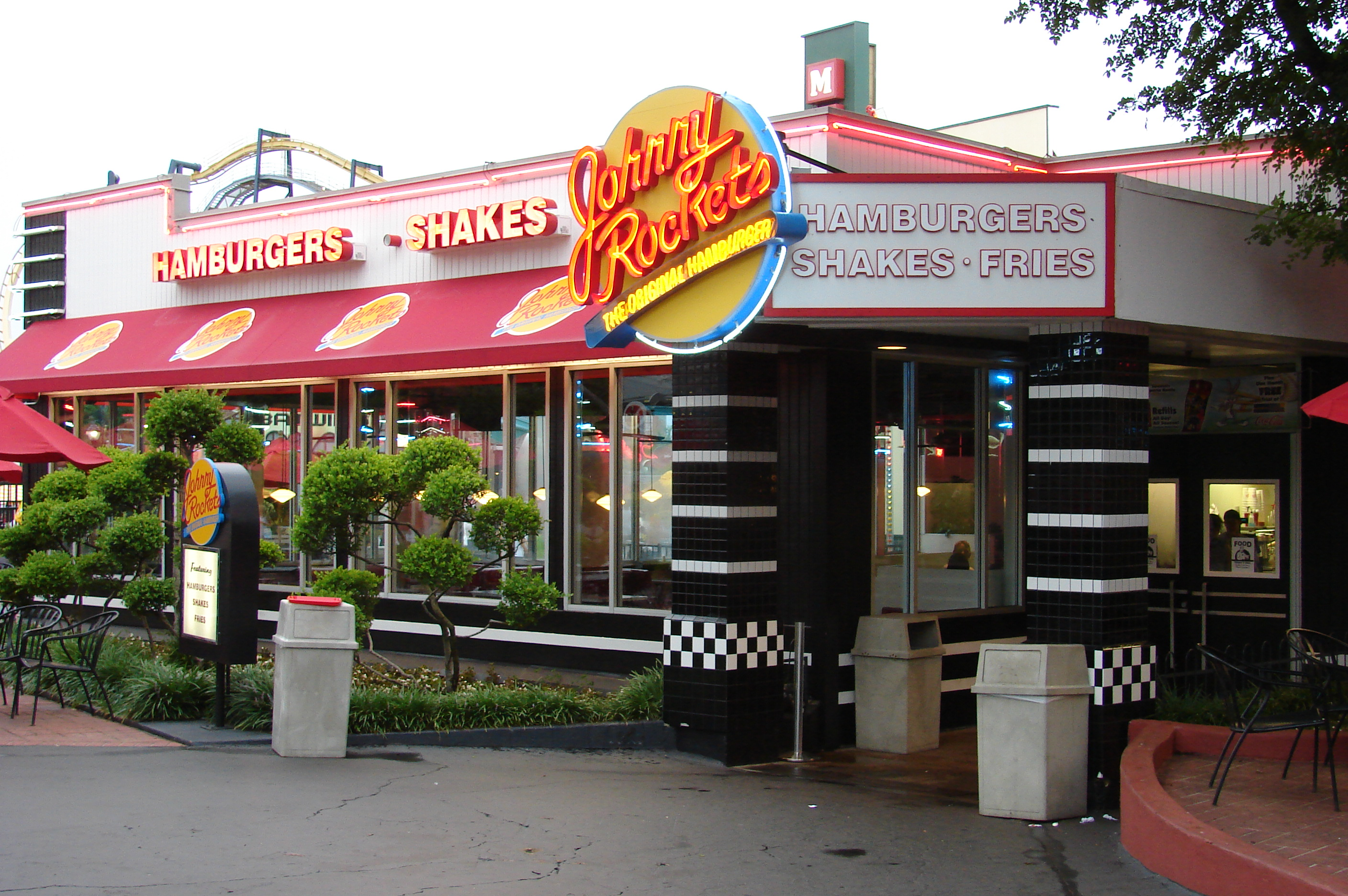 Johnny Rockets restaurant at Six Flags Over Texas theme park